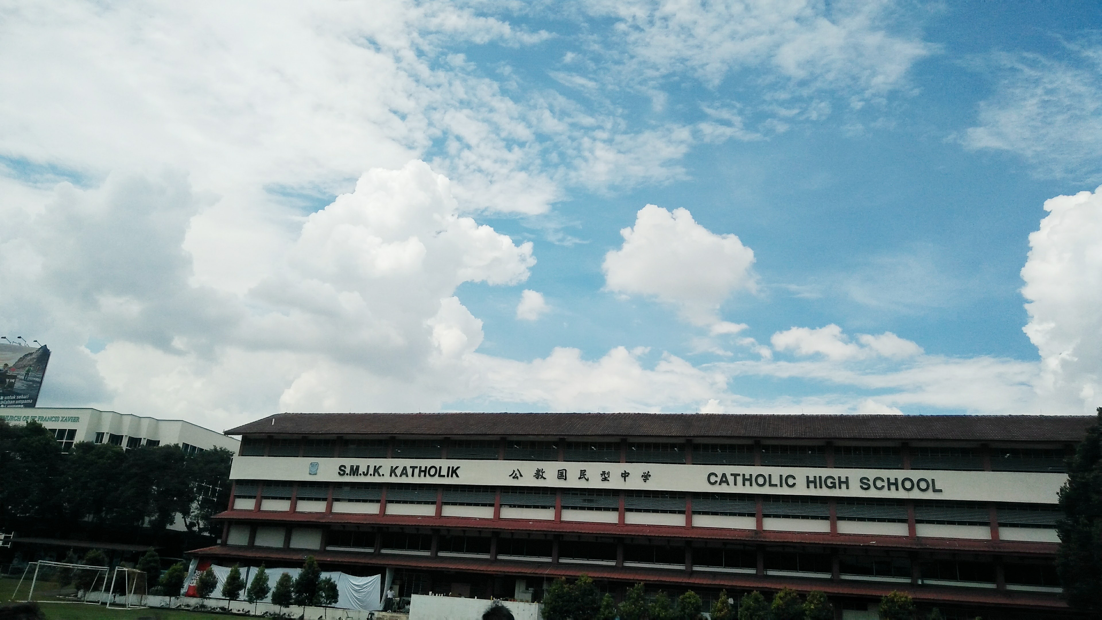 The facade of Catholic High School Petaling Jaya.